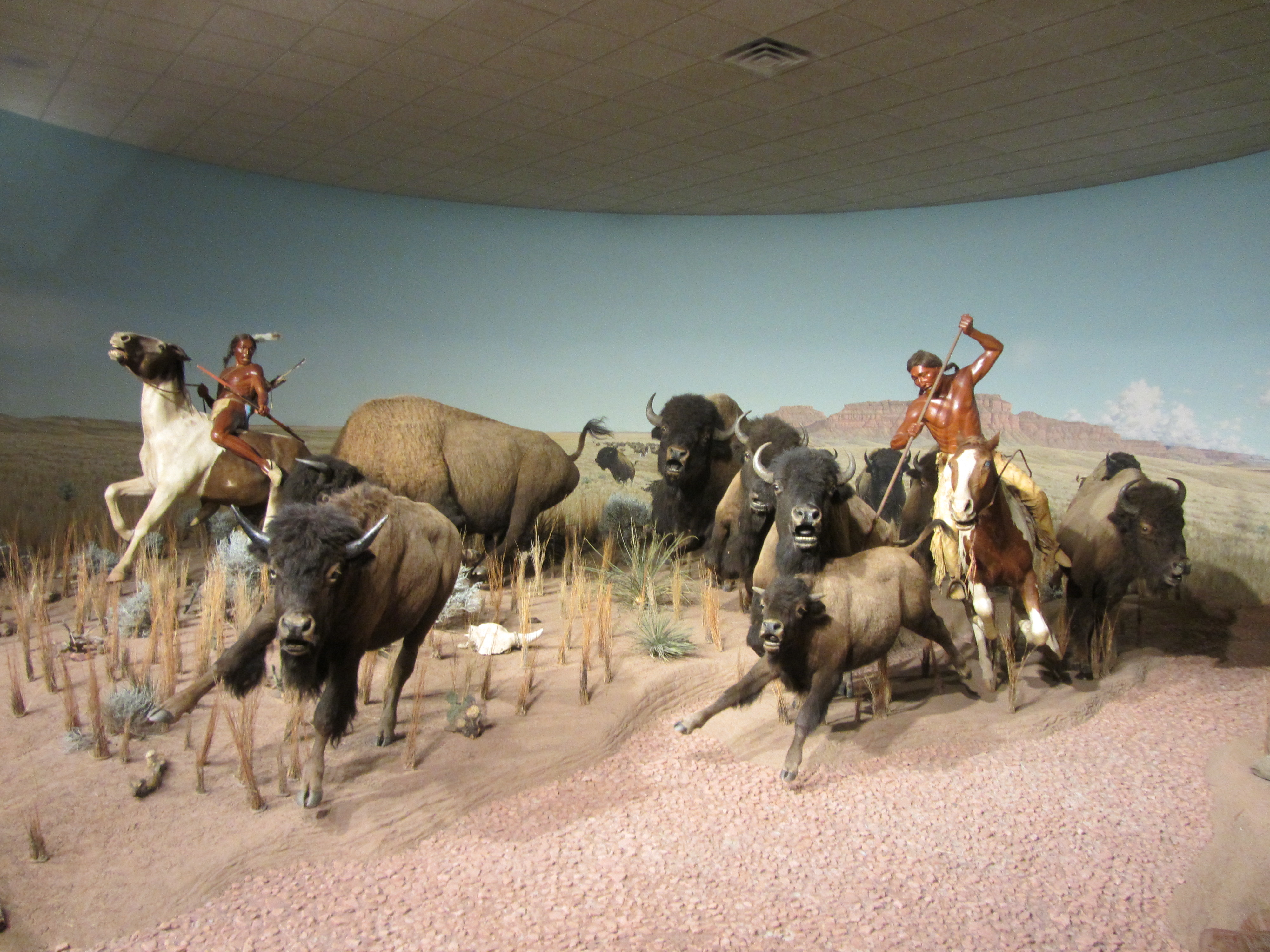 A Crow Indian bison hunt diorama. When this opened in 1966, it was reputed to be the largest open diorama in the world. If you're ever here with a Milwaukee native, ask about the rattlesnake.